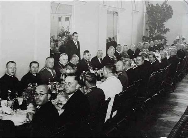 The University of Miklós Horthy, the opening banquet